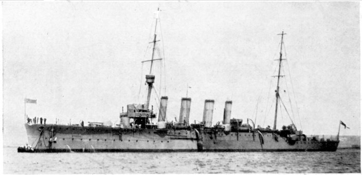 HMAS Melbourne (1912) - Project Gutenberg eText 18333 ONE OF THE VESSELS CONCERNED IN "THE LARGE COMBINED OPERATION" AGAINST THE "EMDEN" H.M.A.S. "MELBOURNE." While it fell to H.M.A.S. "Sydney" to bring the "Emden" to action, another vessel of the Australian Navy, the "Melbourne," also joined in the pursuit. The Admiralty stated that a "large combined operation by fast cruisers against the 'Emden' has been for some time in progress. In this search, which covered an immense area, the British cruisers have been aided by French, Russian, and Japanese vessels working in harmony. H.M.A.S. 'Melbourne' and 'Sydney' were also included in these movements."